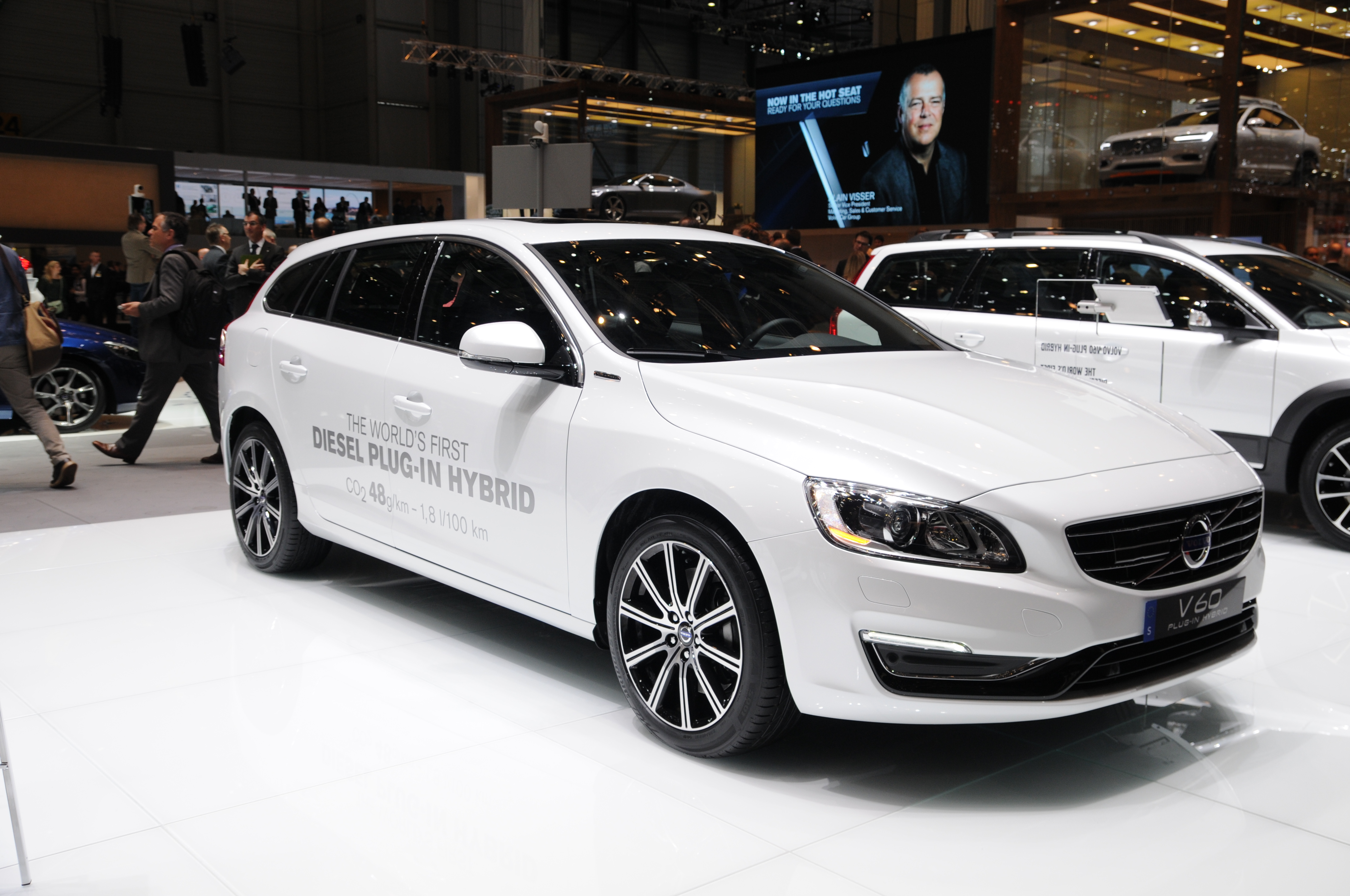 Geneva Motor Show 2014 (photo taken on the first press day)